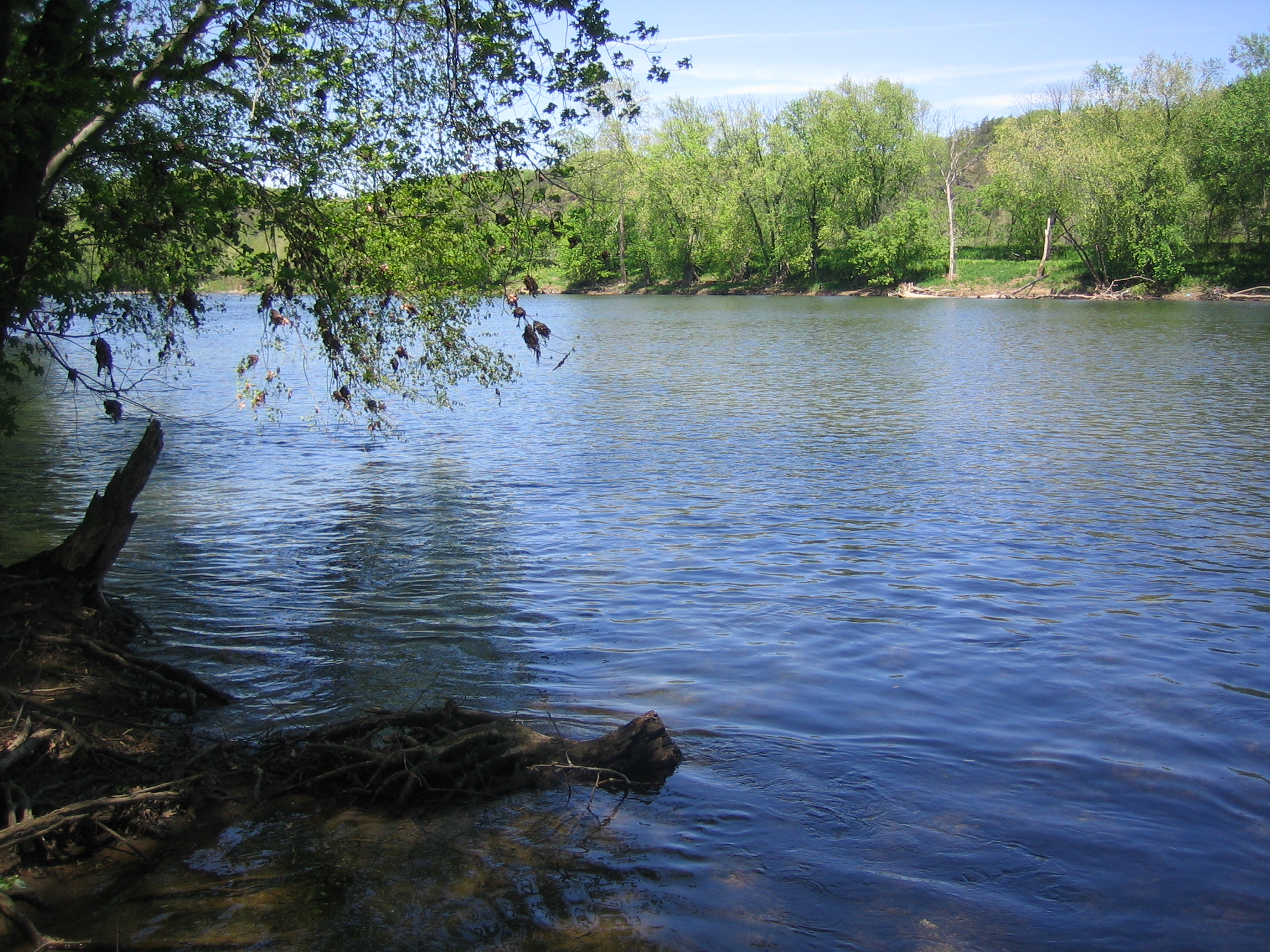 The Potomac River at South Branch Depot, West Virginia, United States.